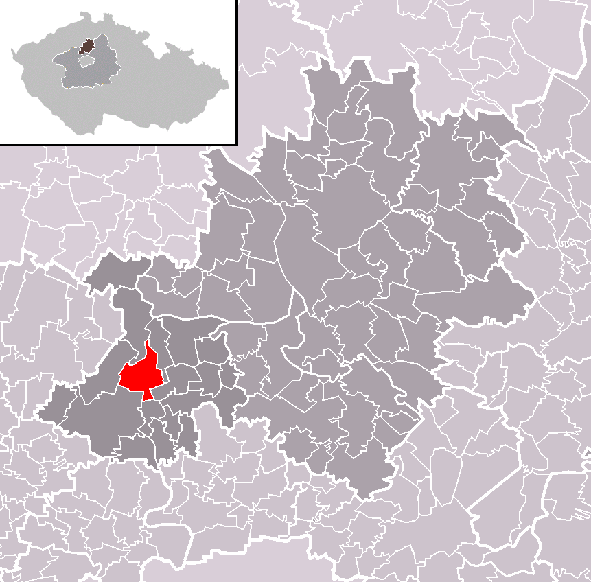 Location of Veltrusy municipality within Mělník District and administrative area of Kralupy nad Vltavou as a Municipality with Extended Competence.